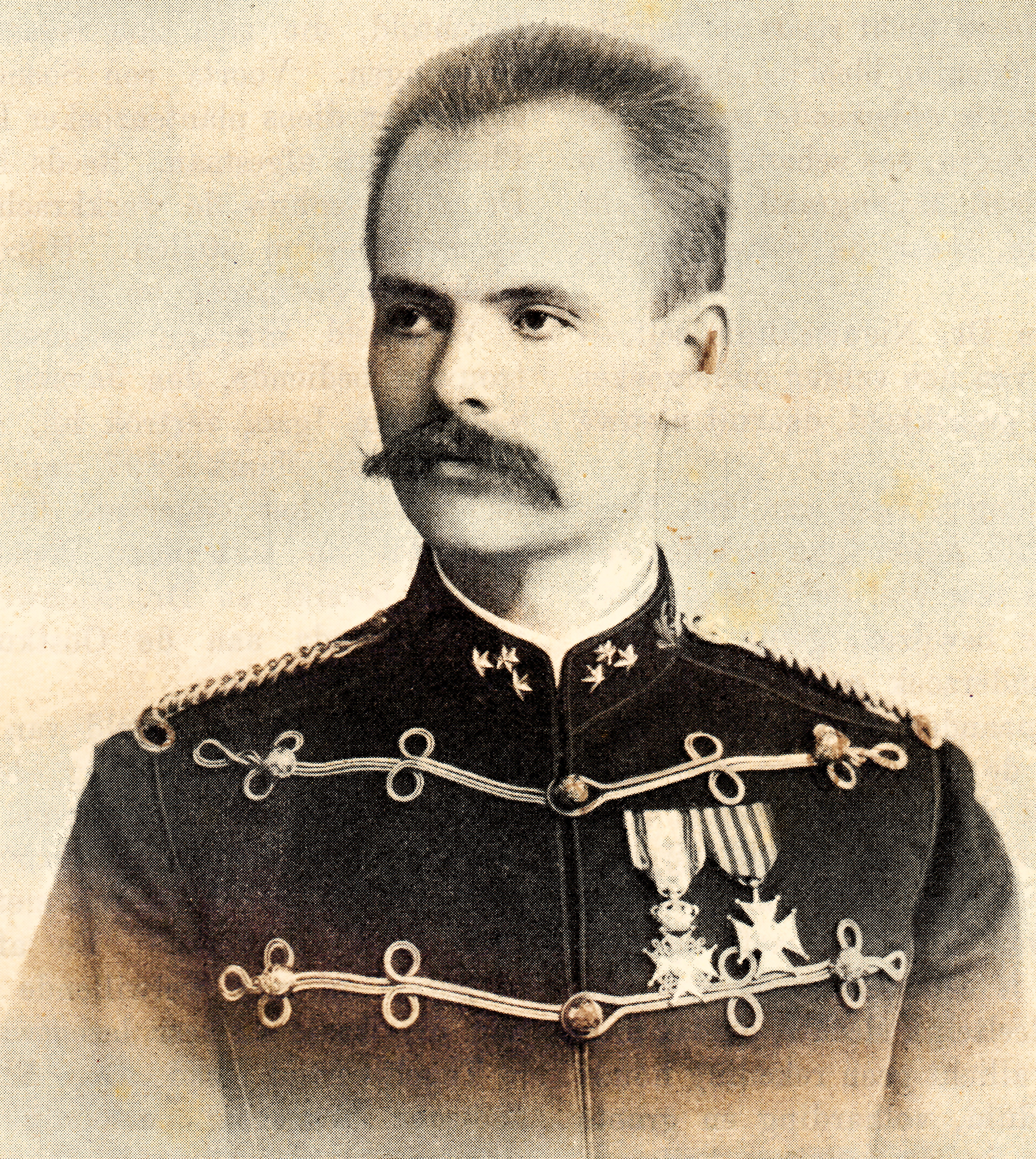 Dr Anton Willem Nieuwenhuis